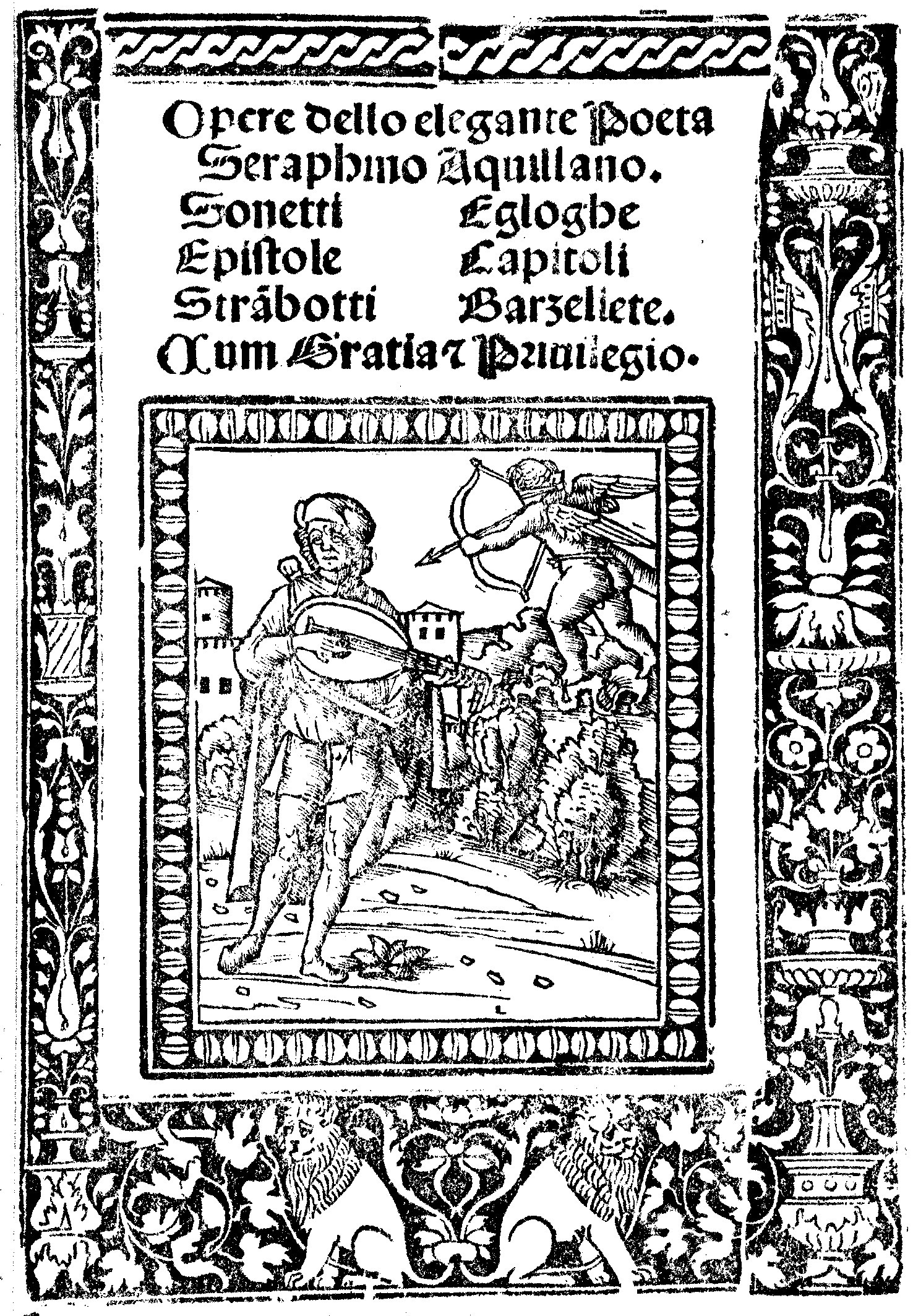 The title page of "The Works of the Elegant Poet Serafino Aquilano", published from Venice in 1510